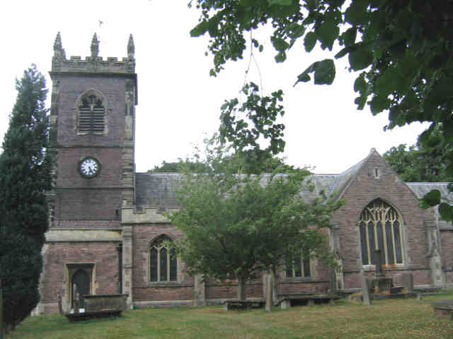 photograph